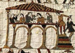 Scene of the Bayeux Tapestry. The English(?) are shown feasting in the upper story of a building. Five figures are shown sitting at the table, three of them holding drinking horns. A sixth figure is looking into the hall coming up the stairs, pointing towards the boats of Harold Godwinson embarking for Normandy in next scene.